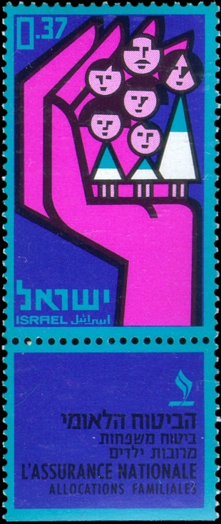 Stamp marking 10th anniversary INS